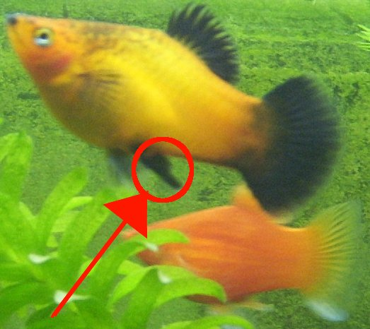 Photo of a Gonopodium of a Platy. Photo taken at home in front of the fish tank using the following equipement: ISO 200 Aperture Value F4.6 edited with Gimp